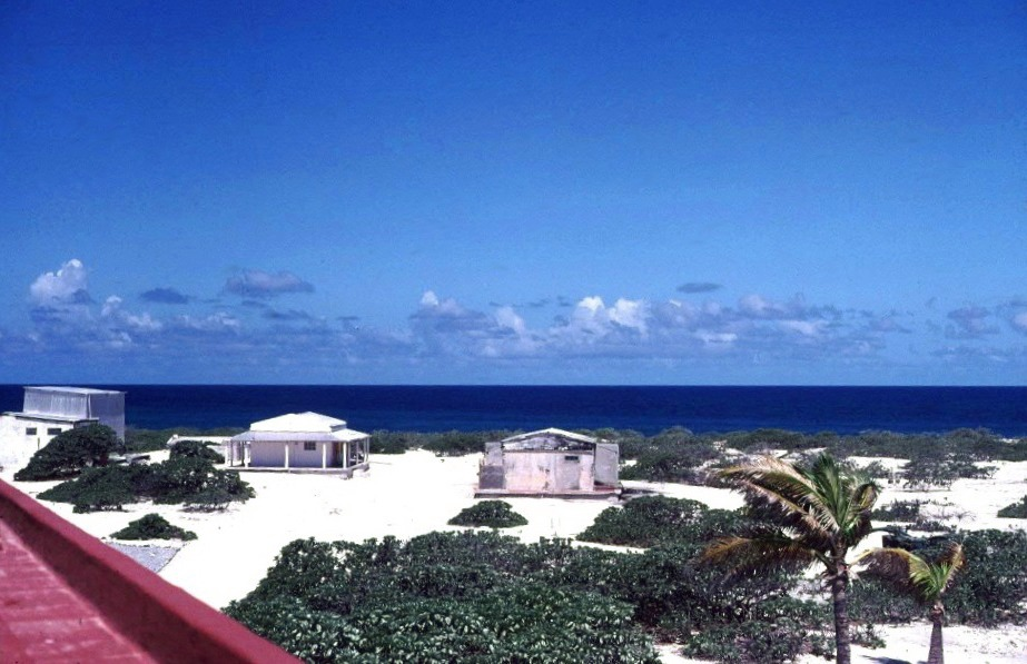 General view of the station of Tromelin, Indian Ocean.